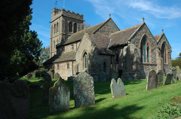 Eye Church Eye church is dedicated to St Peter and St Paul.